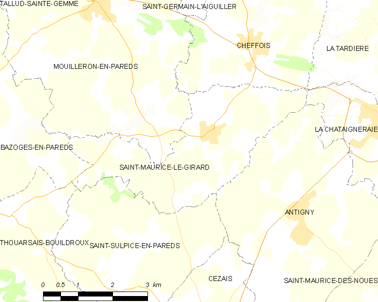 Map of French municipality Saint-Maurice-le-Girard